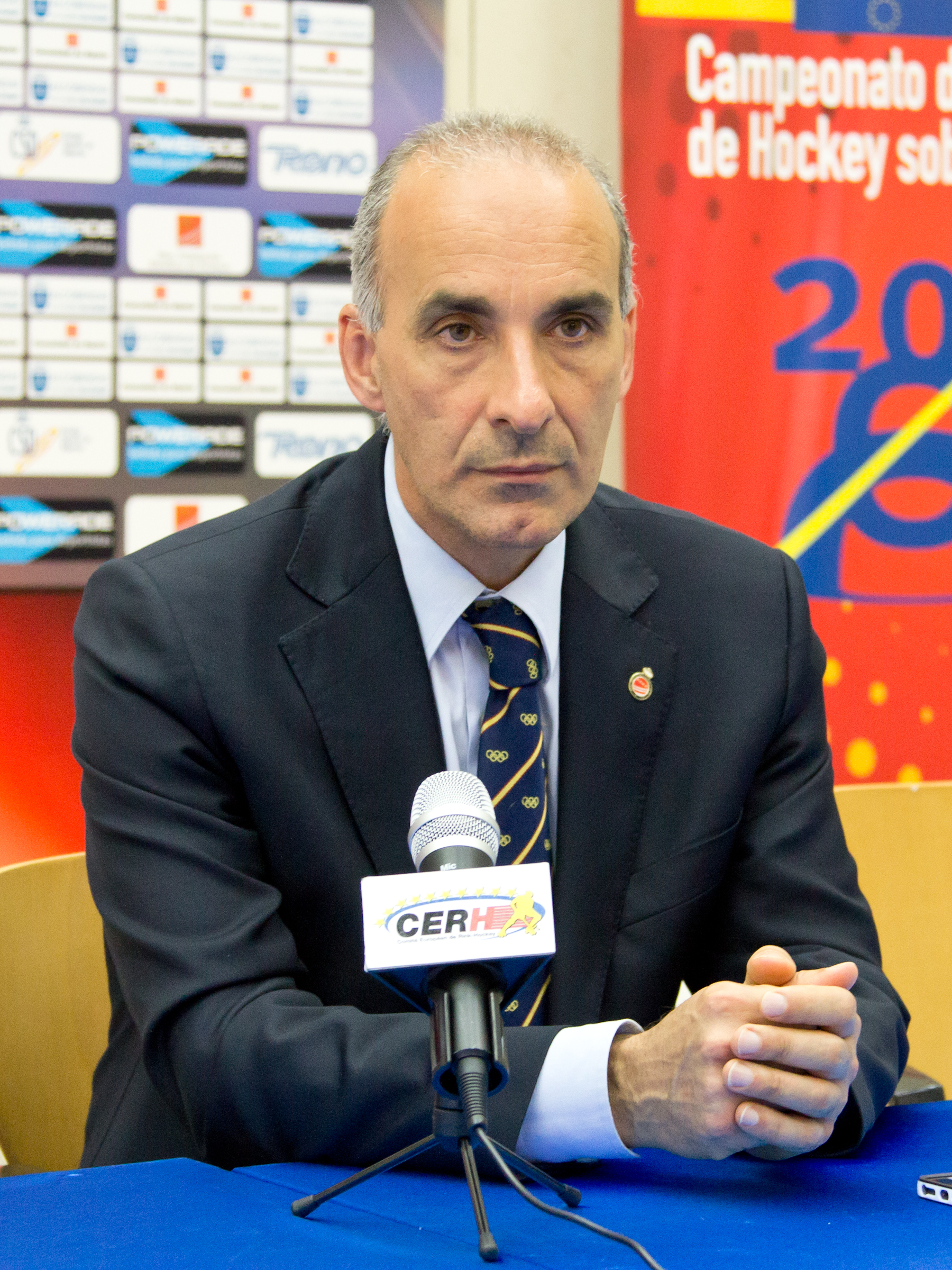 Quim Paüls, manager of Spain national roller hockey team.